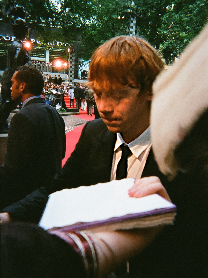 British actor Rupert Grint at the London premiere of Harry Potter and the Half-Blod Prince